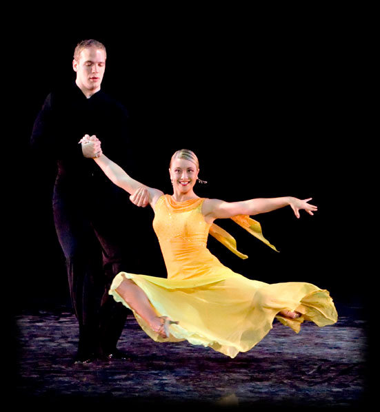 BYU Dancers (edited by mwilson3)